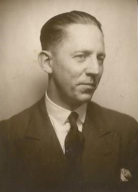 The intelligence agent and guard in Columbia Haus Concentration Camp in Berlin Othmar Toifl (1898-1934) who was shot on 1 July 1934 during the purge by the National Socialist government known as Night of the Long Knives.